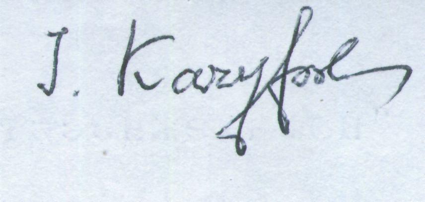 Igor Kaczurowskyj's signature